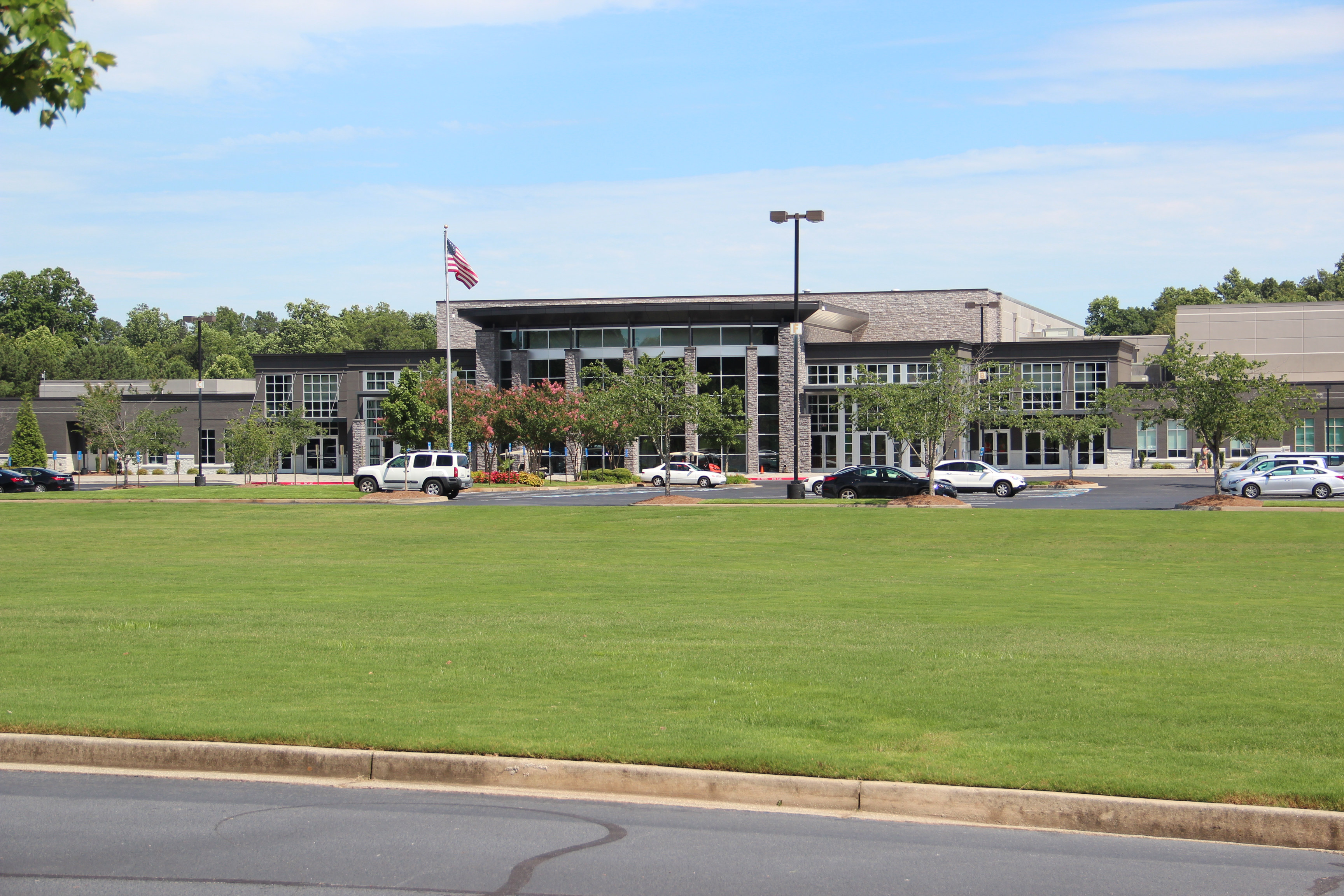 North Point Community Church in Alpharetta